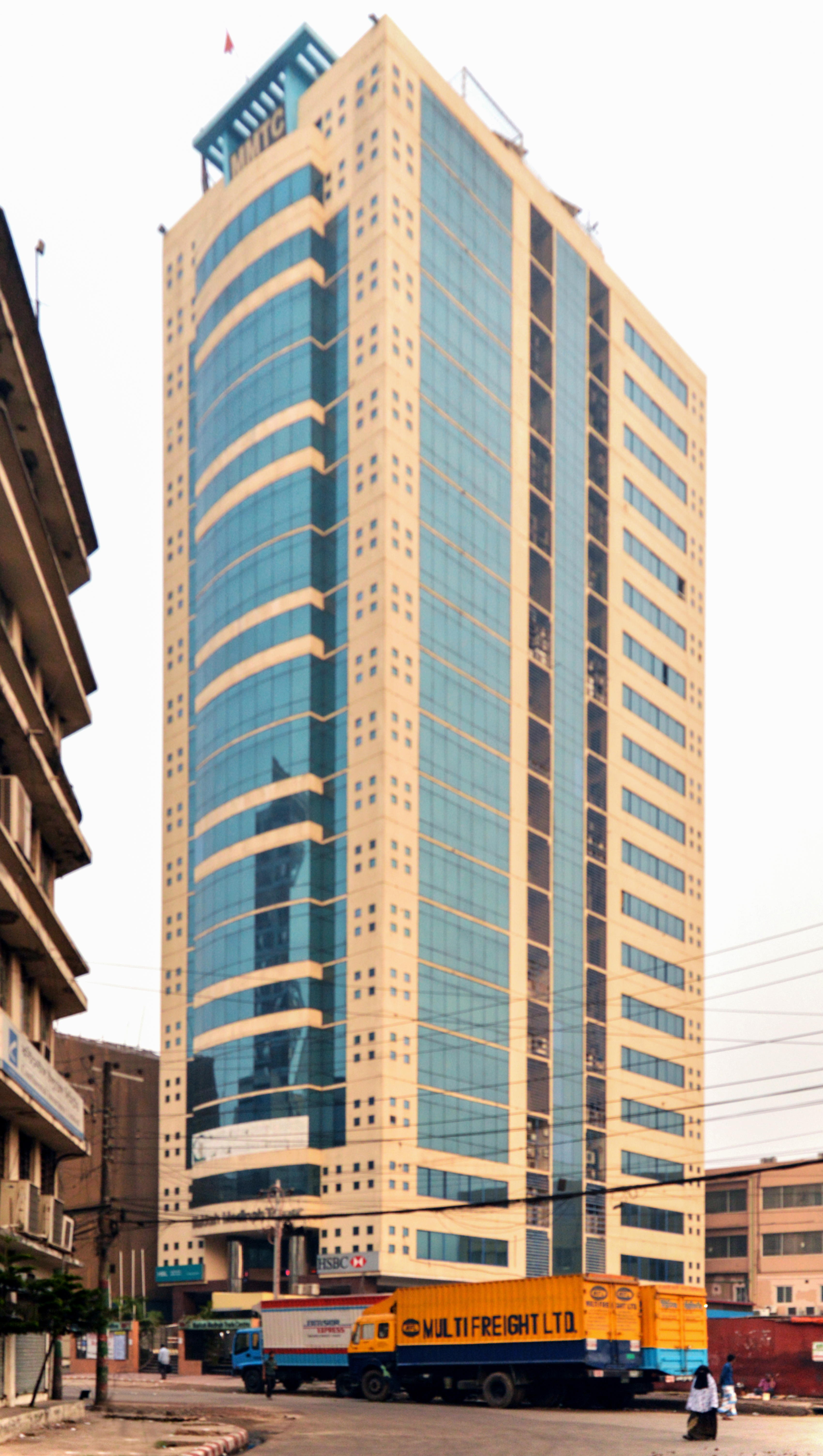 Makkah Madina Trade Centre, Sabdar Ali Rd, Chittagong.